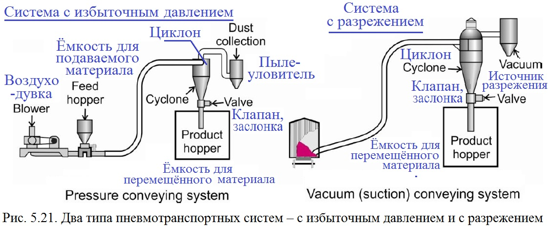 Figure 5.21. Depiction of two types of pneumatic conveying systems